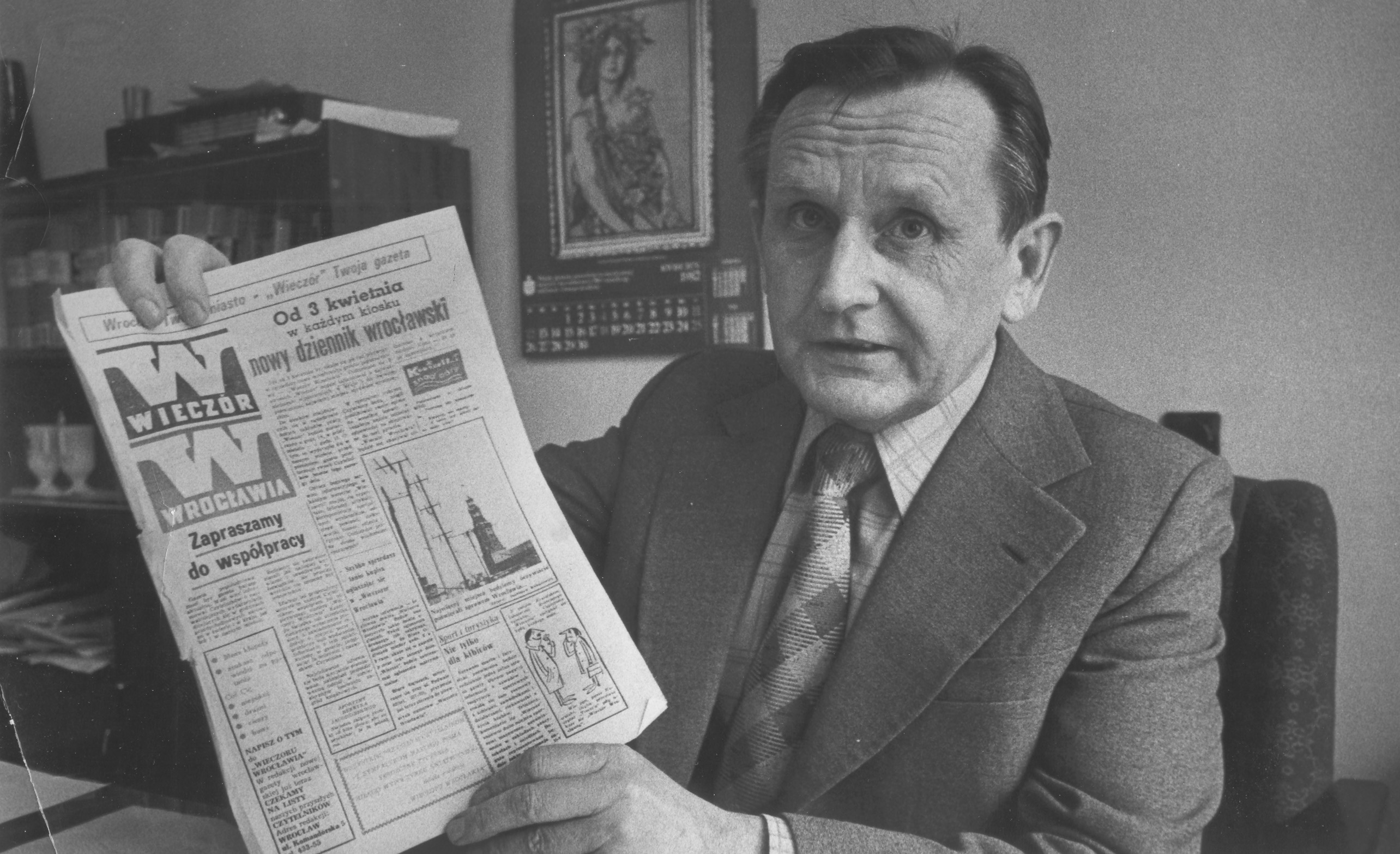 Polish journalist, Zygmunt Antkowiak